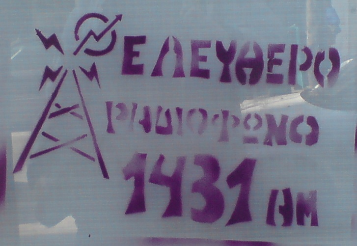 Graffiti for 1431 am Greek radio station